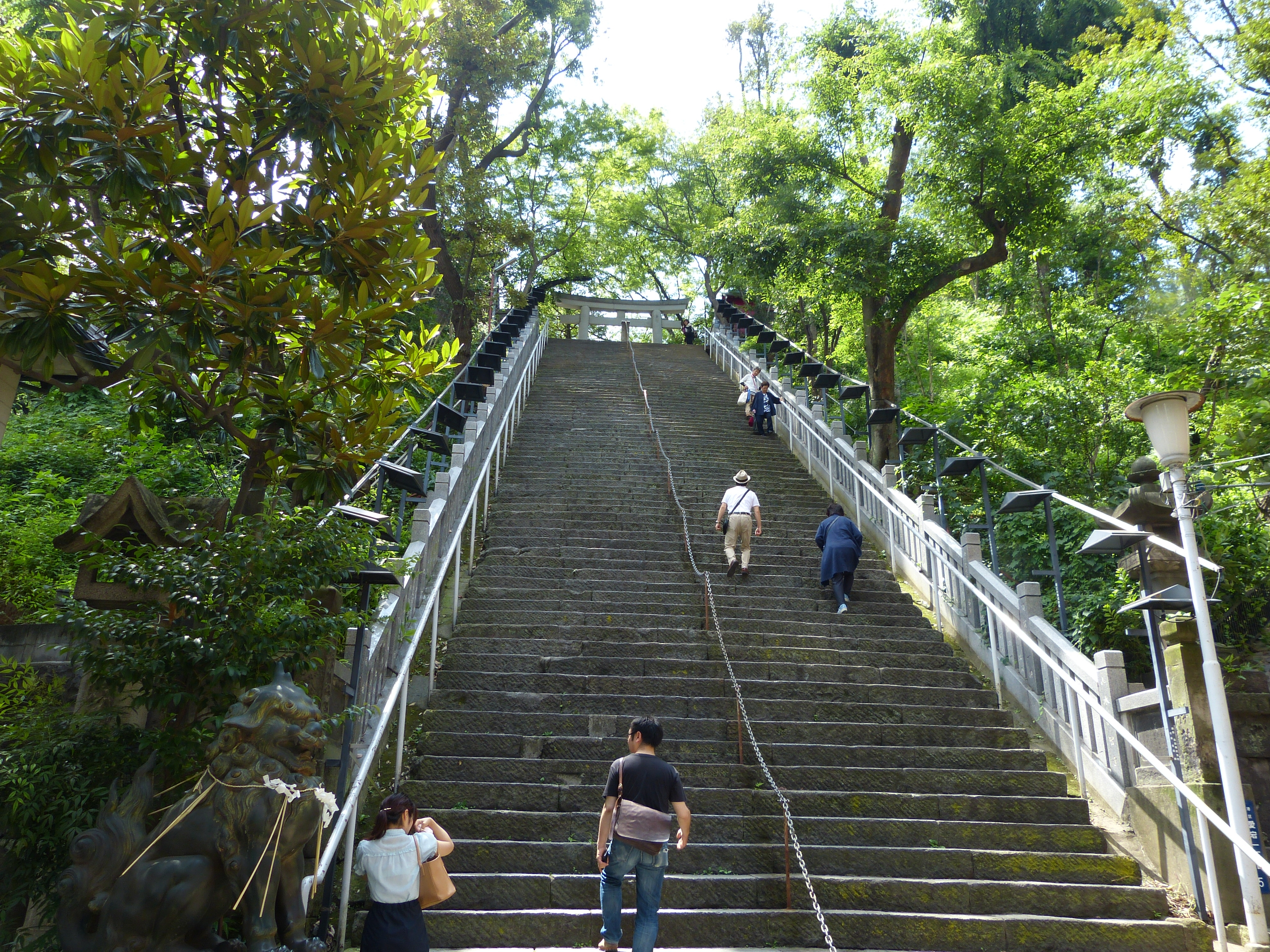 The stairs of Atago shrine